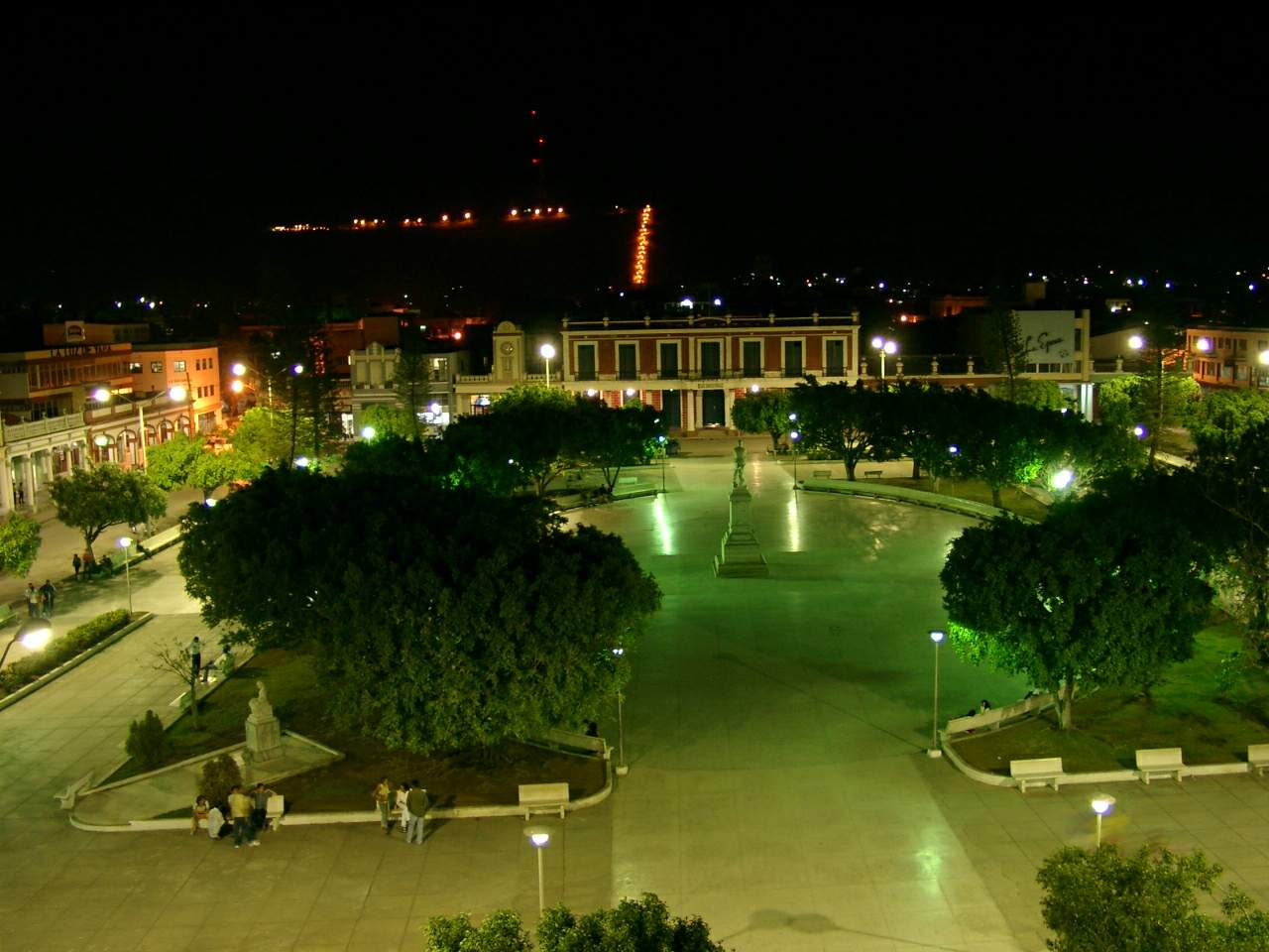 Picture of Calixto Garcia central park, in Holguín city